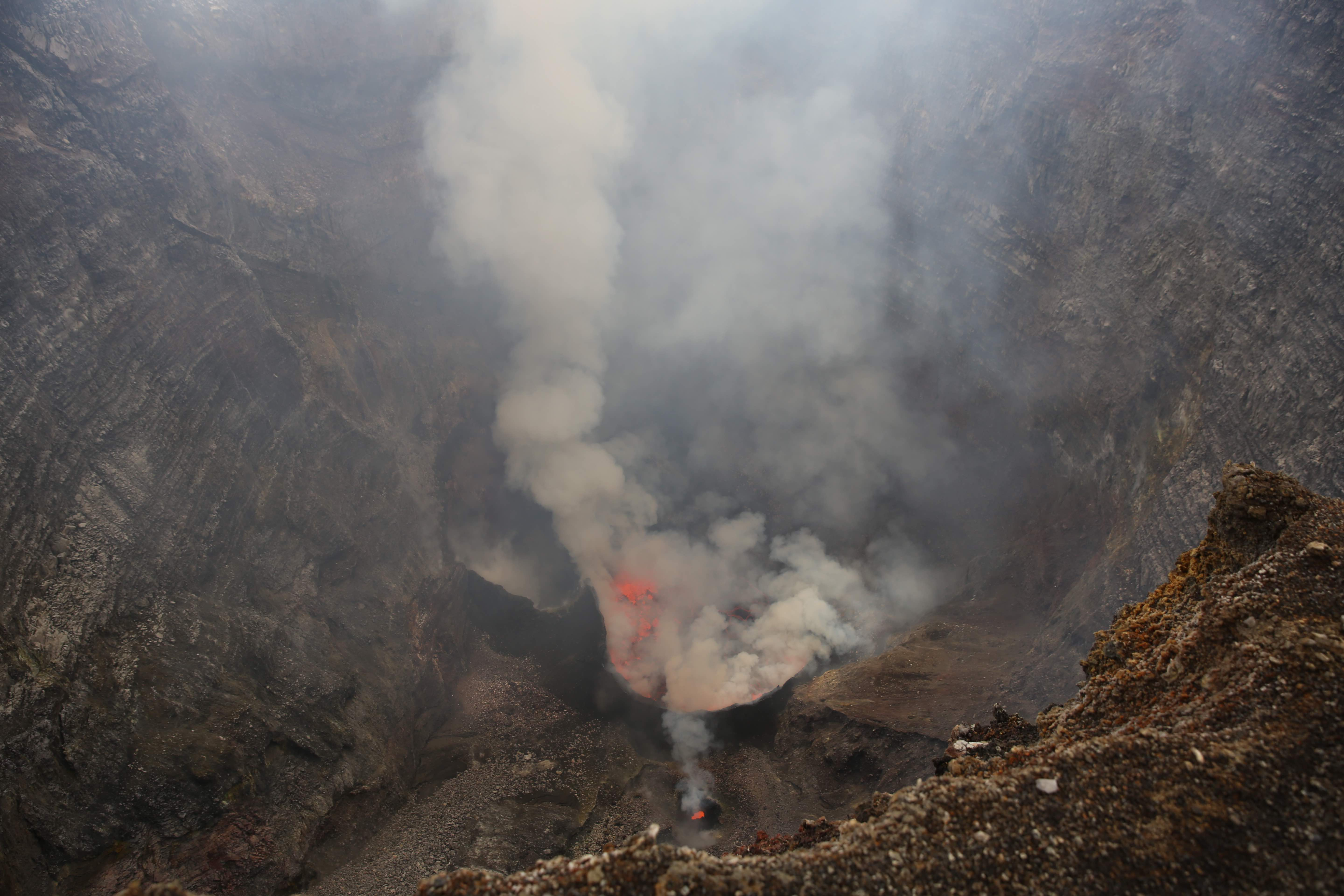 2 April 2015. Virunga National Park – North Kivu. View of Nyamulagira volcano crater and its lake of lava from inside. Photo MONUSCO/Abel Kavanagh